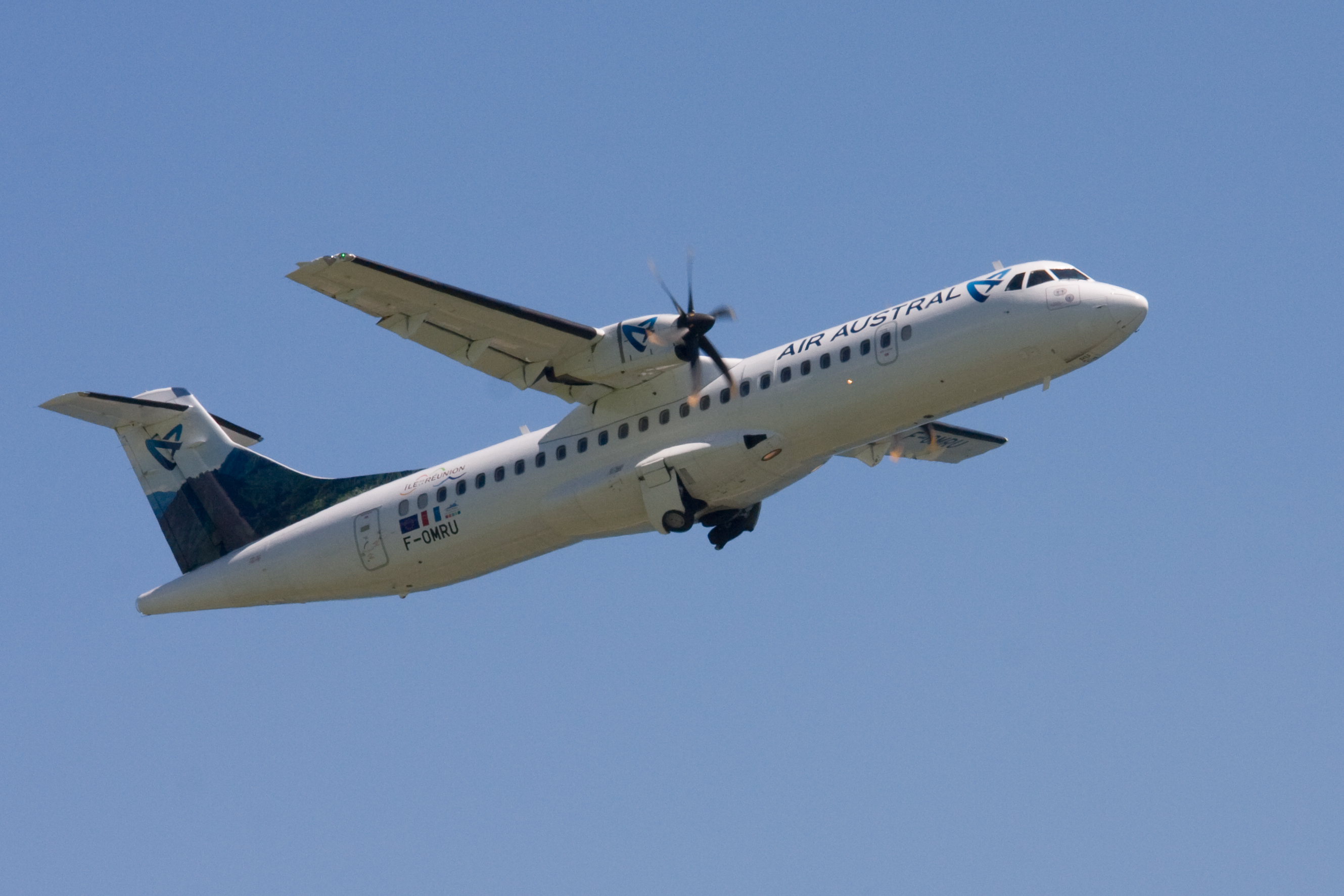 Air Austral ATR 72-500 taking off from Roland Garros Airport, La Réunion Feb 2017